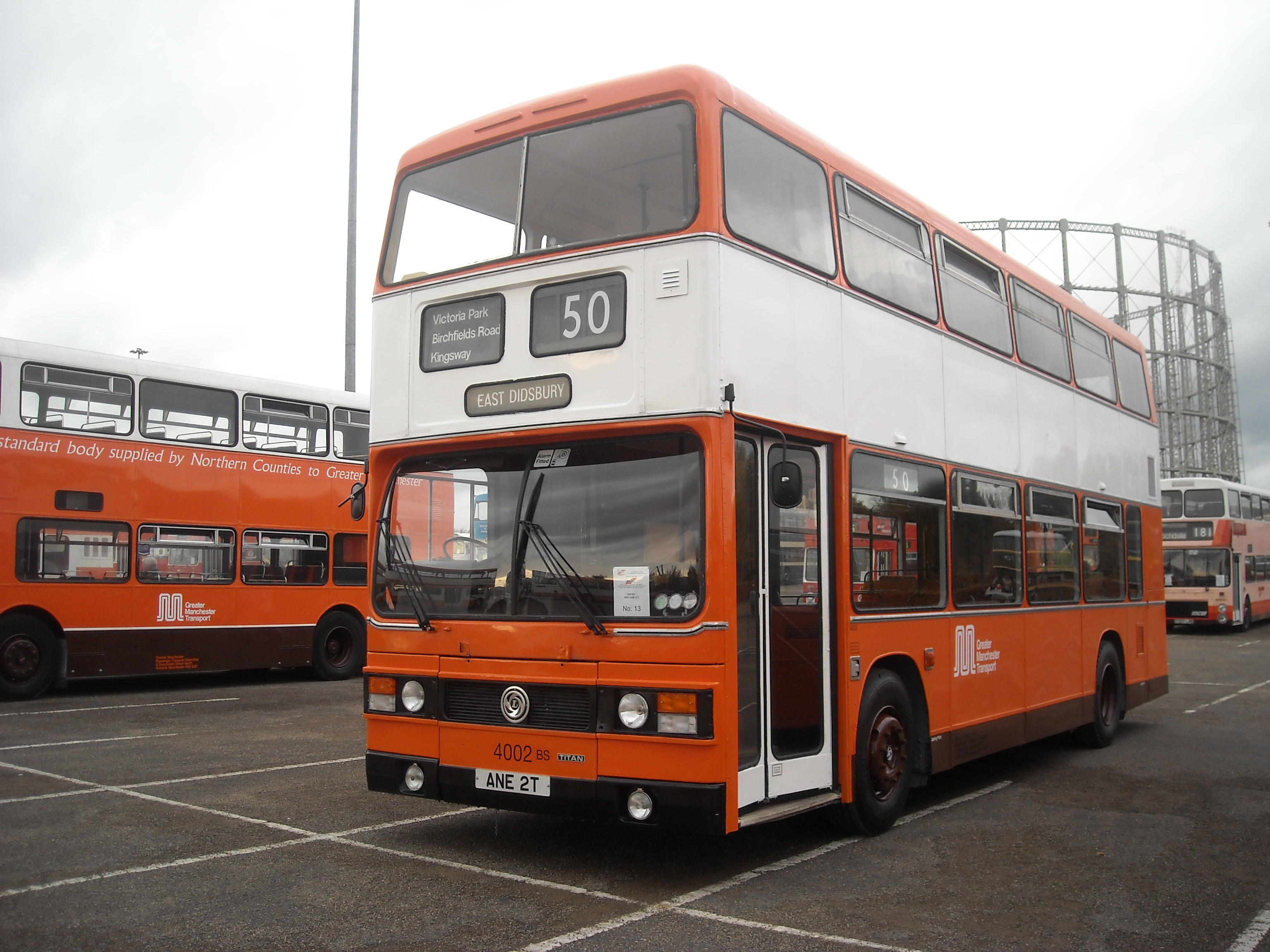 Preserved Greater Manchester Transport bus 4002 (reg. ANE 2T), pictured in Car Park No. 2 of Sportcity, Manchester, for the SELNEC Preservation Society's 40 Years of SELNEC event. For full details see the extracted image.